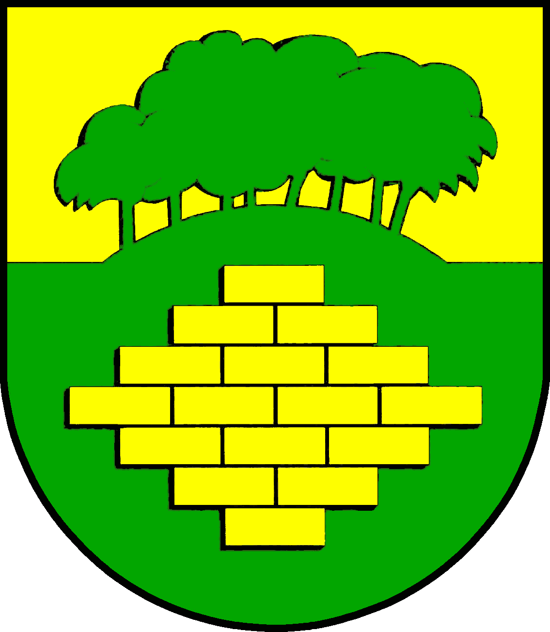 Coat of arms of the municipality Warringholz in Schleswig-Holstein, Germany.